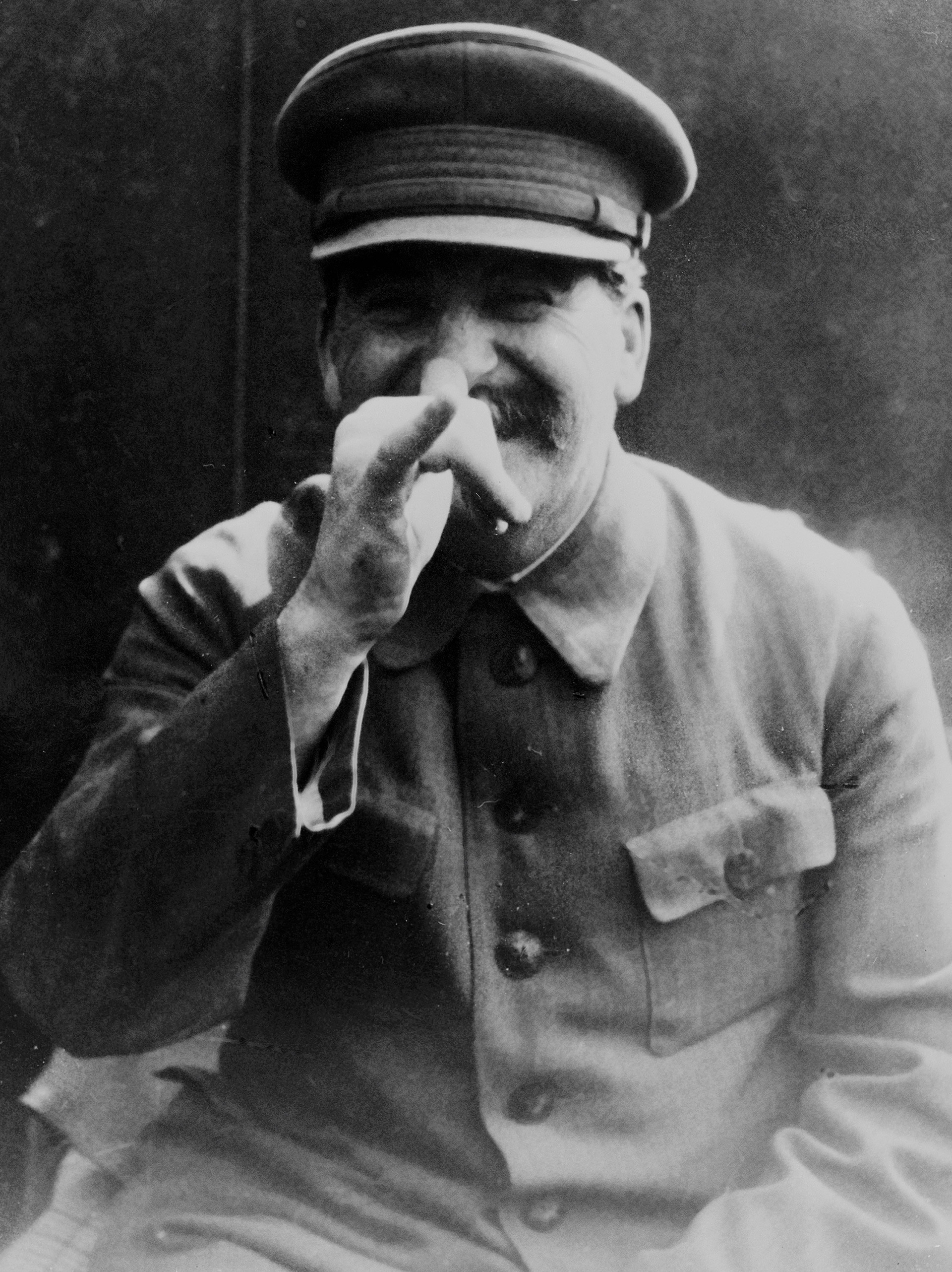 Iosif Vissarionovich Stalin